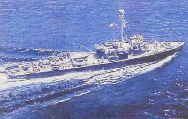 A PC underway